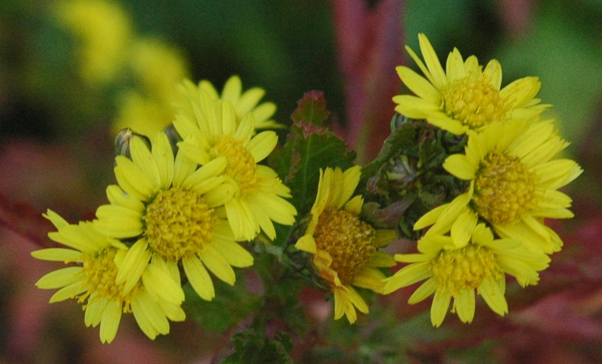 Chrysanthemum indicum (syn. C. nangkingense)